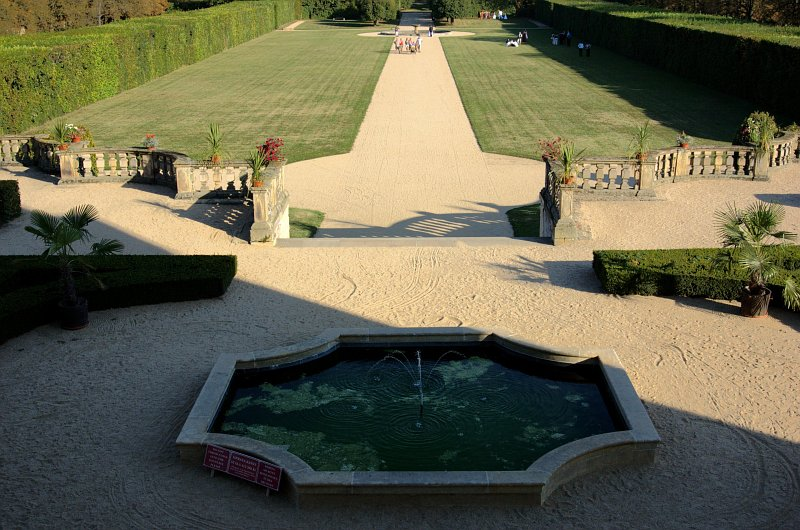 Milotice Castle, Czech republic